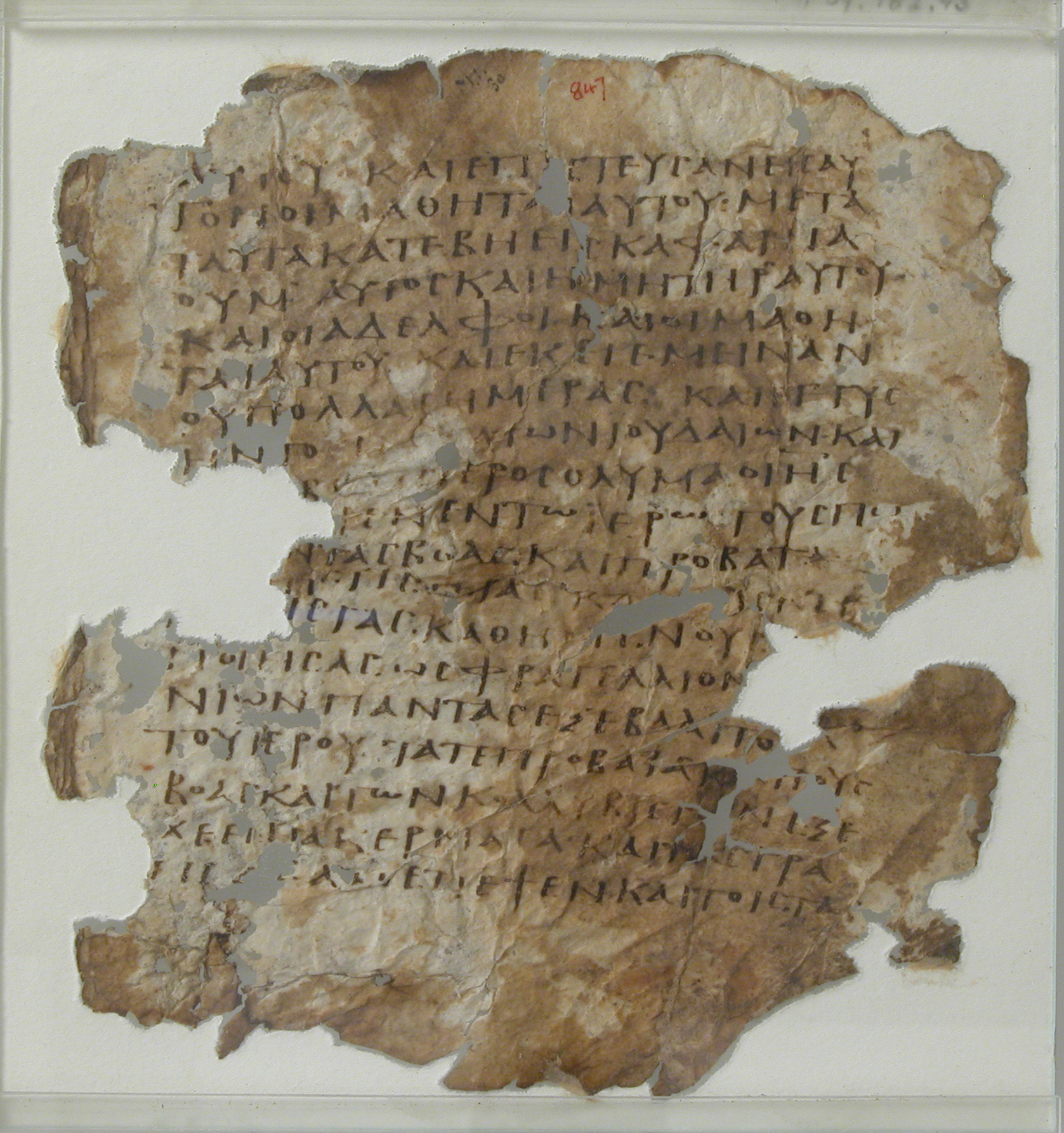 Egyptian; Manuscript leaf; Papyrus